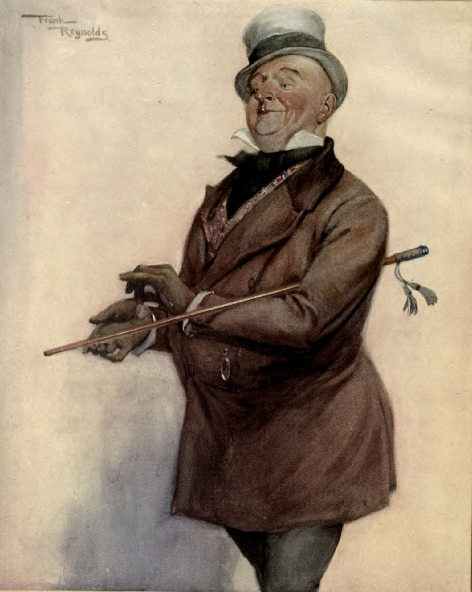 Wilkins Micawber a character from Charles Dickens David Copperfield